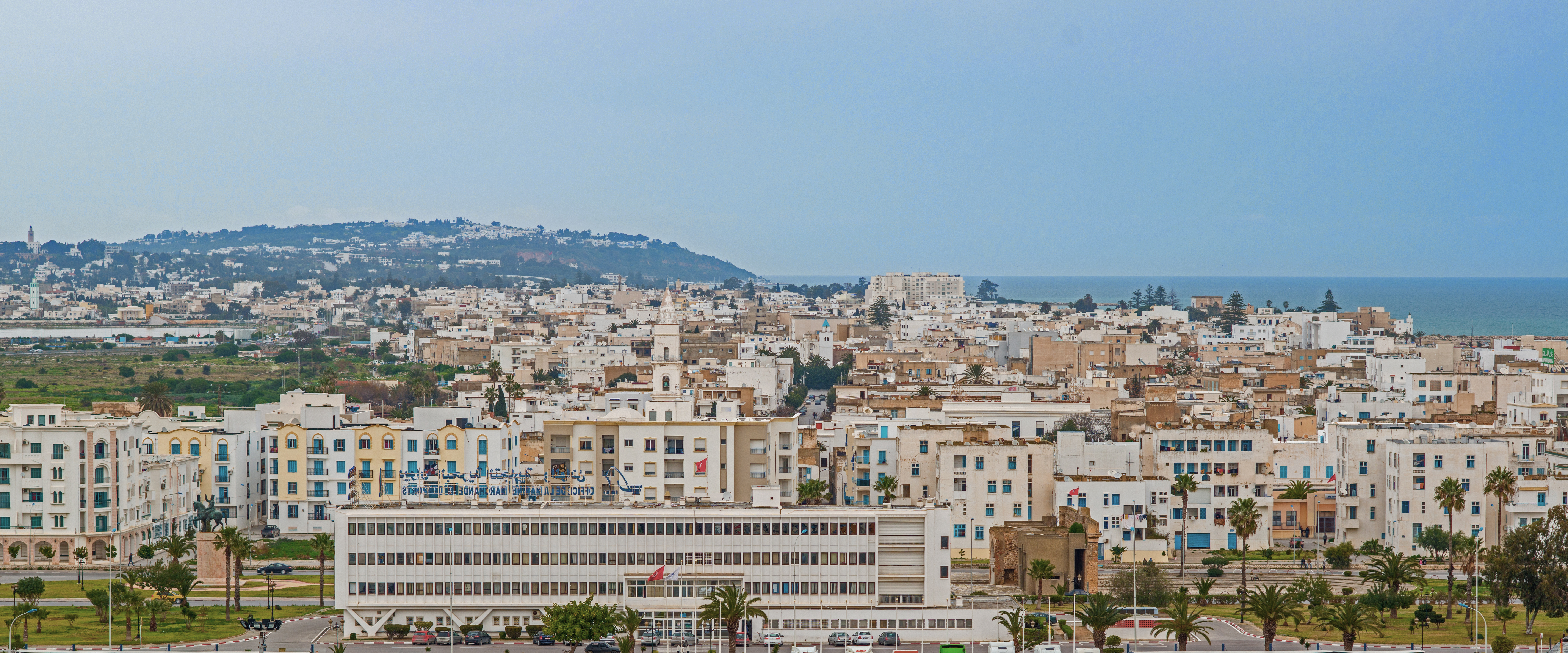 Panoramic view of La Goulette, Tunisia.